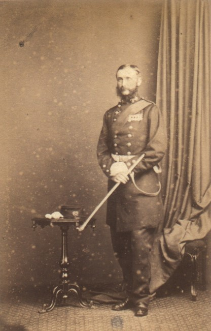 Colonel Richard George Amherst Luard KCB, 62nd Regiment of Foot.